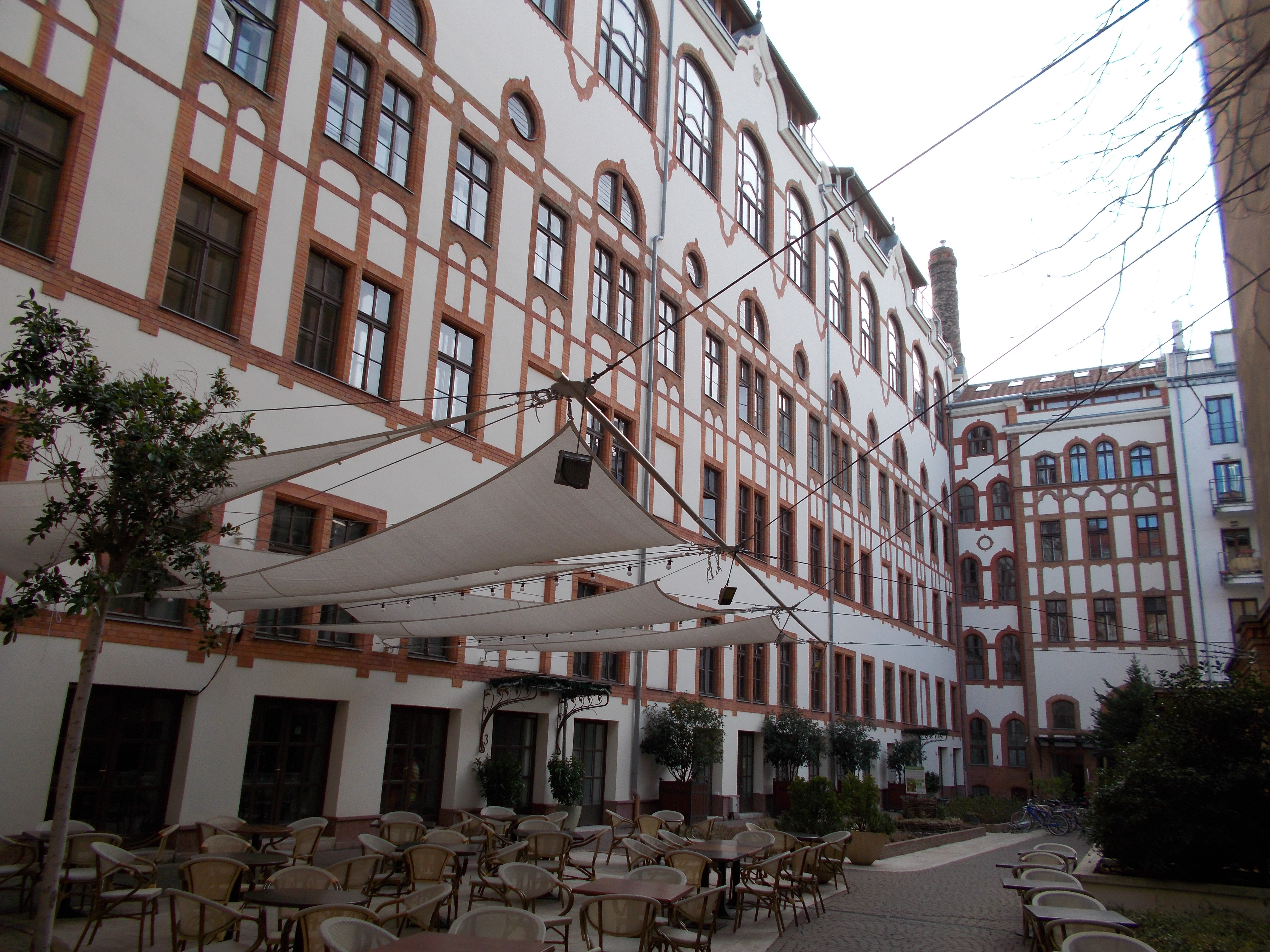 Prezi Office Building, - Budapest This is a photo of a monument in Hungary, Identifier: 797